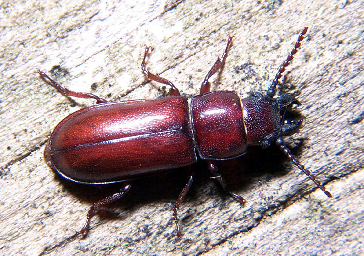 .jpg image of Longhorn Beetle Neandra brunnea --Vitalfranz 18:22, 9 March 2008 (UTC)